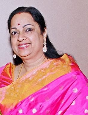 Kalaimamani Geetha Rajashekar